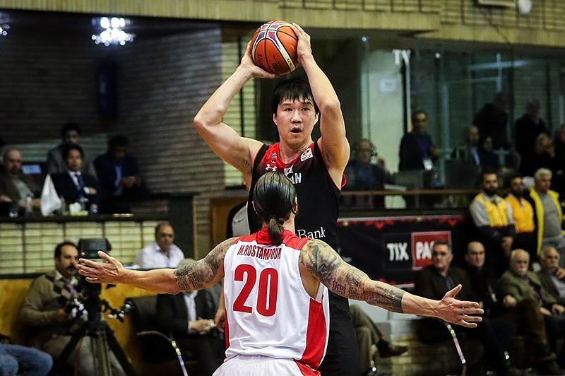 Atsuya Ohta